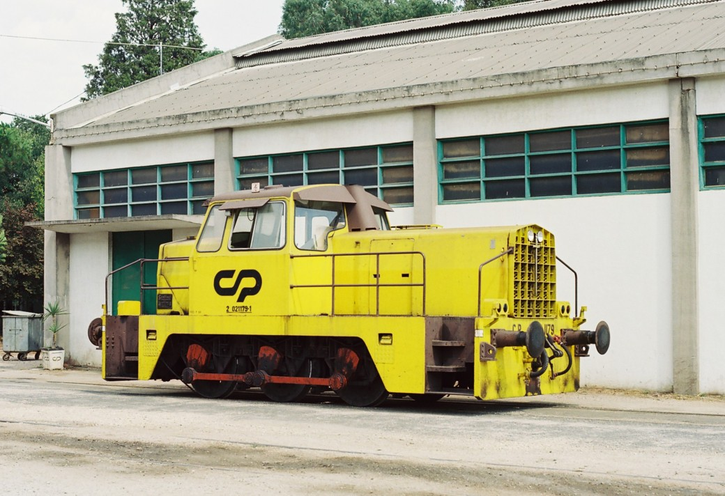 CP 1179 in Entroncamento